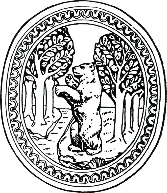 Seal of Treptow.